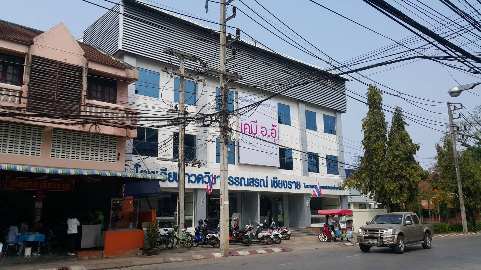 The tutoring school "Chemistry by Teacher Ou" Chaing Rai province branch in Thailand